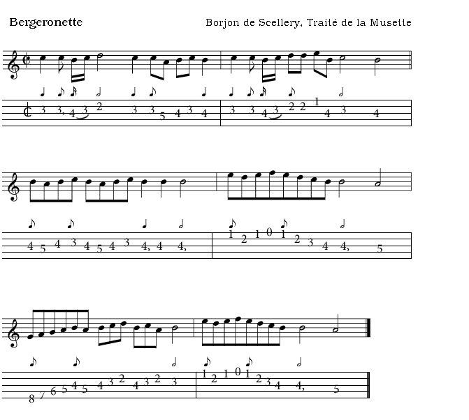 Illustration of musette tablature, from Borjon de Scellery's "Traité de la musette"